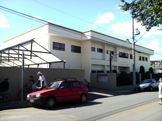 Atibaia Nipo-Brazilian Cultural Association (Atibaia Bunkyo)